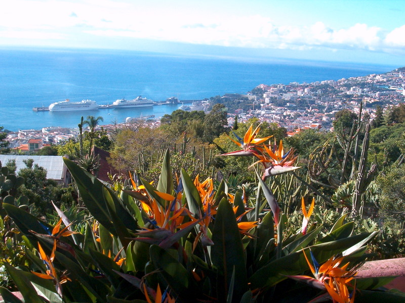 Panoramic_View_of_Funchal_from_Madeira_Botanical_Garden